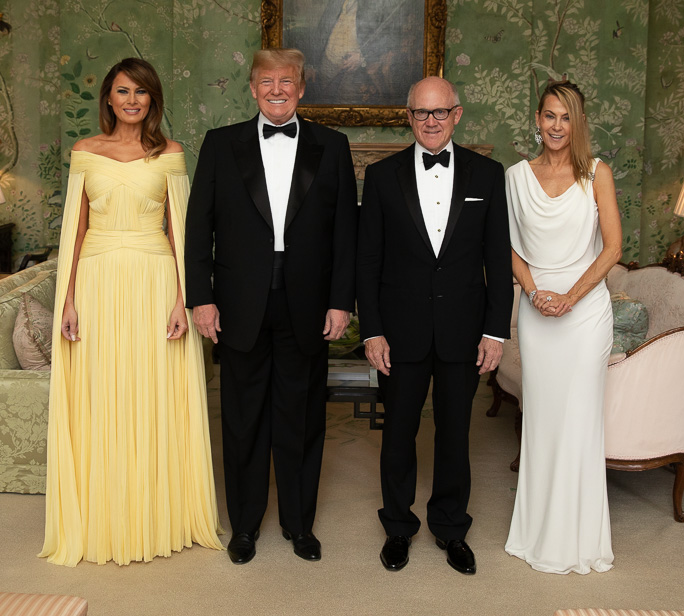 President Donald J. Trump and First Lady Melania Trump with the United States Ambassador to the United Kingdom Woody Johnson and his wife Suzanne Ircha. July 12, 2018 (Official White House Photo)